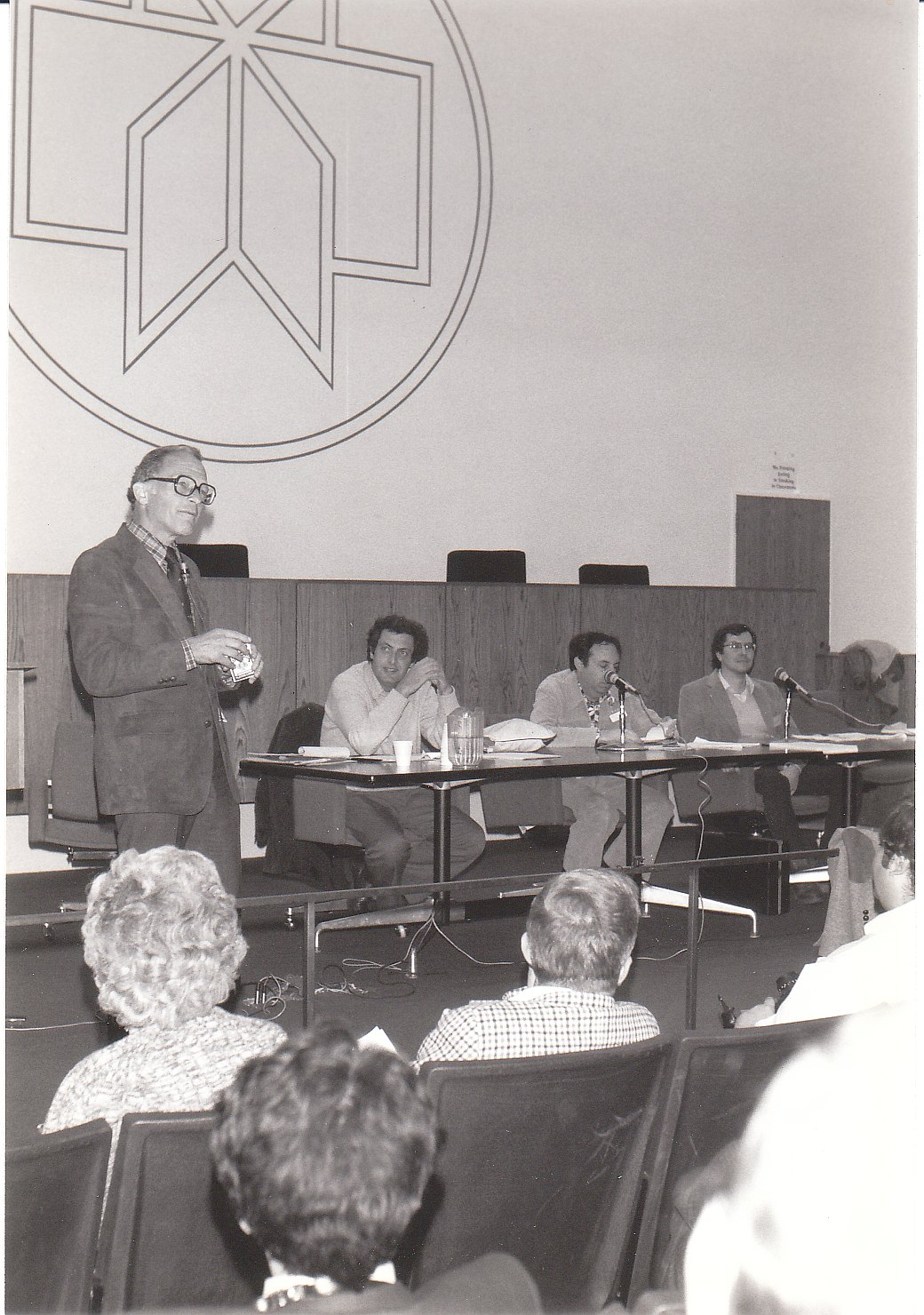 At the 1983 CSICOP Conference at the North Campus of SUNY Buffalo in Amherst, New York.